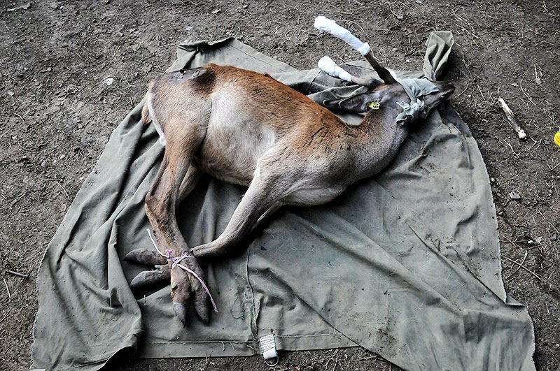 Marals at Semes Kandeh Animal Shelter in Sari County.